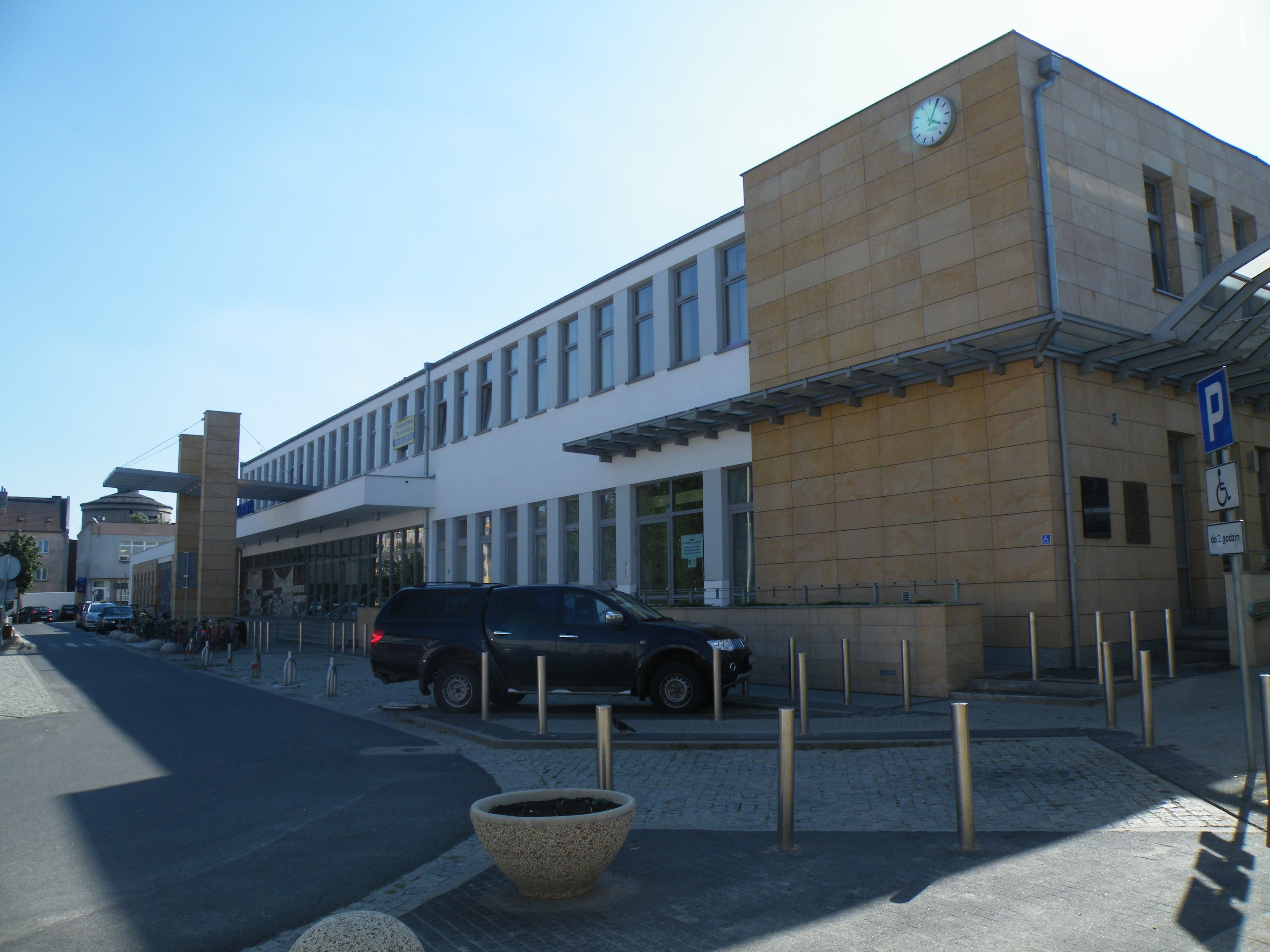 Ostrów Wielkopolski train station - view form Dworcowa Street